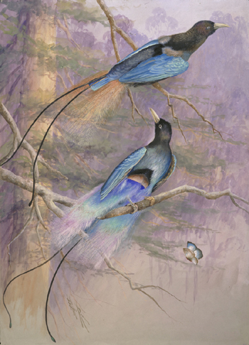 Elliot's Bird of Paradise, Paradisaea rudolphi. c1917, Papua New Guinea